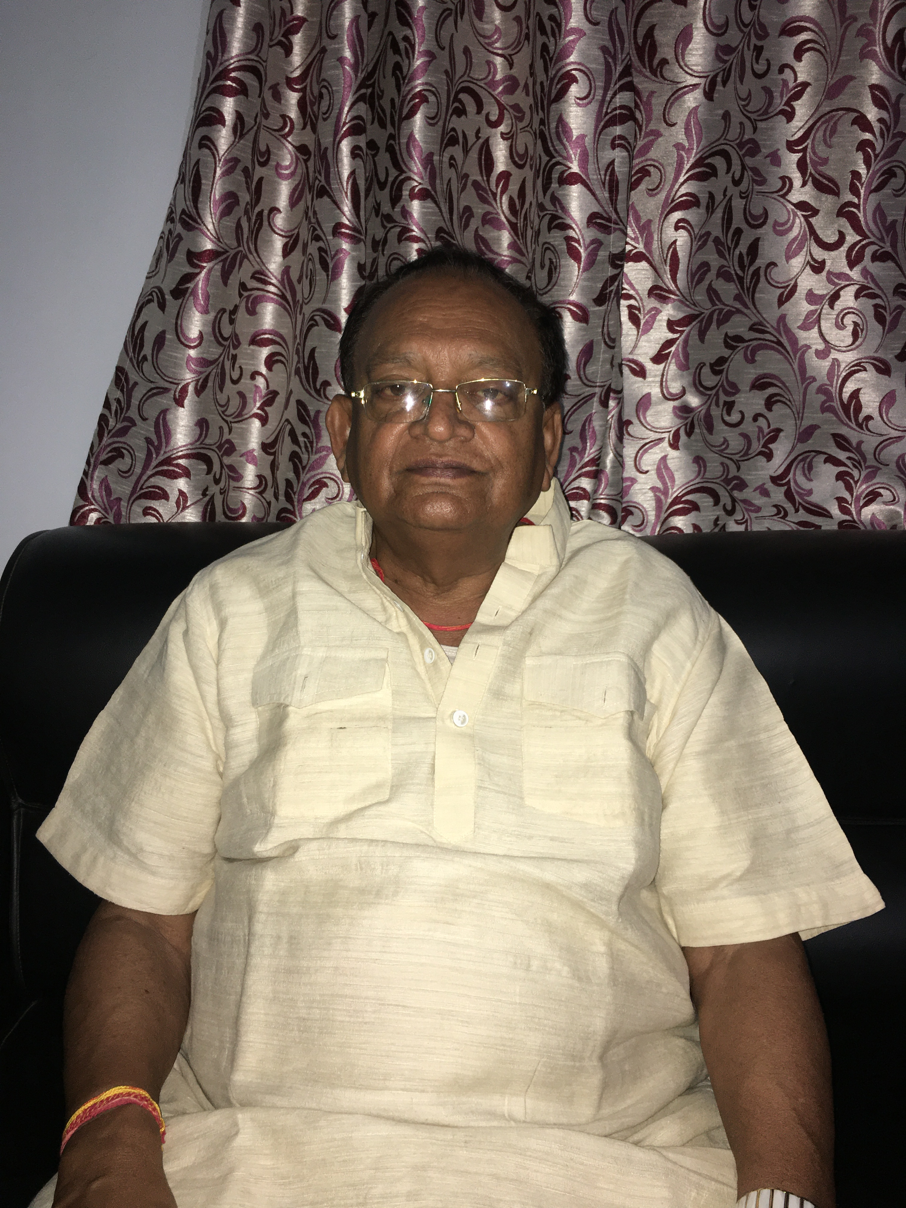 Singh at his residence in Patna